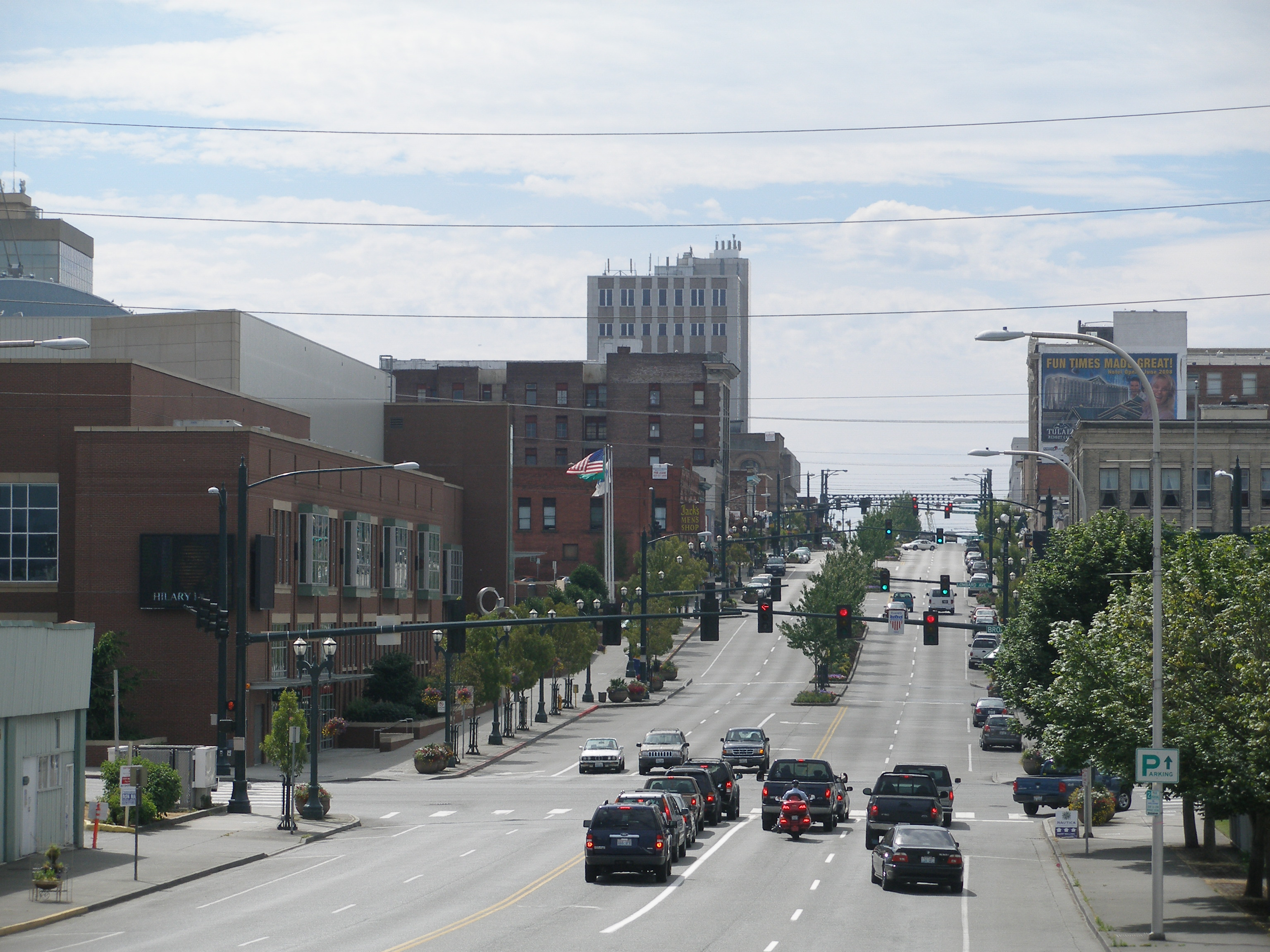 Downtown Everett, WA, looking west on Hewitt Avenue. In the foreground at left, Comcast Arena; beyond that, the Hewitt Avenue Historic District